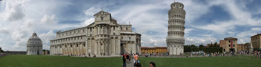 180 degree view of the baptistry, duomo, and tower in Pisa